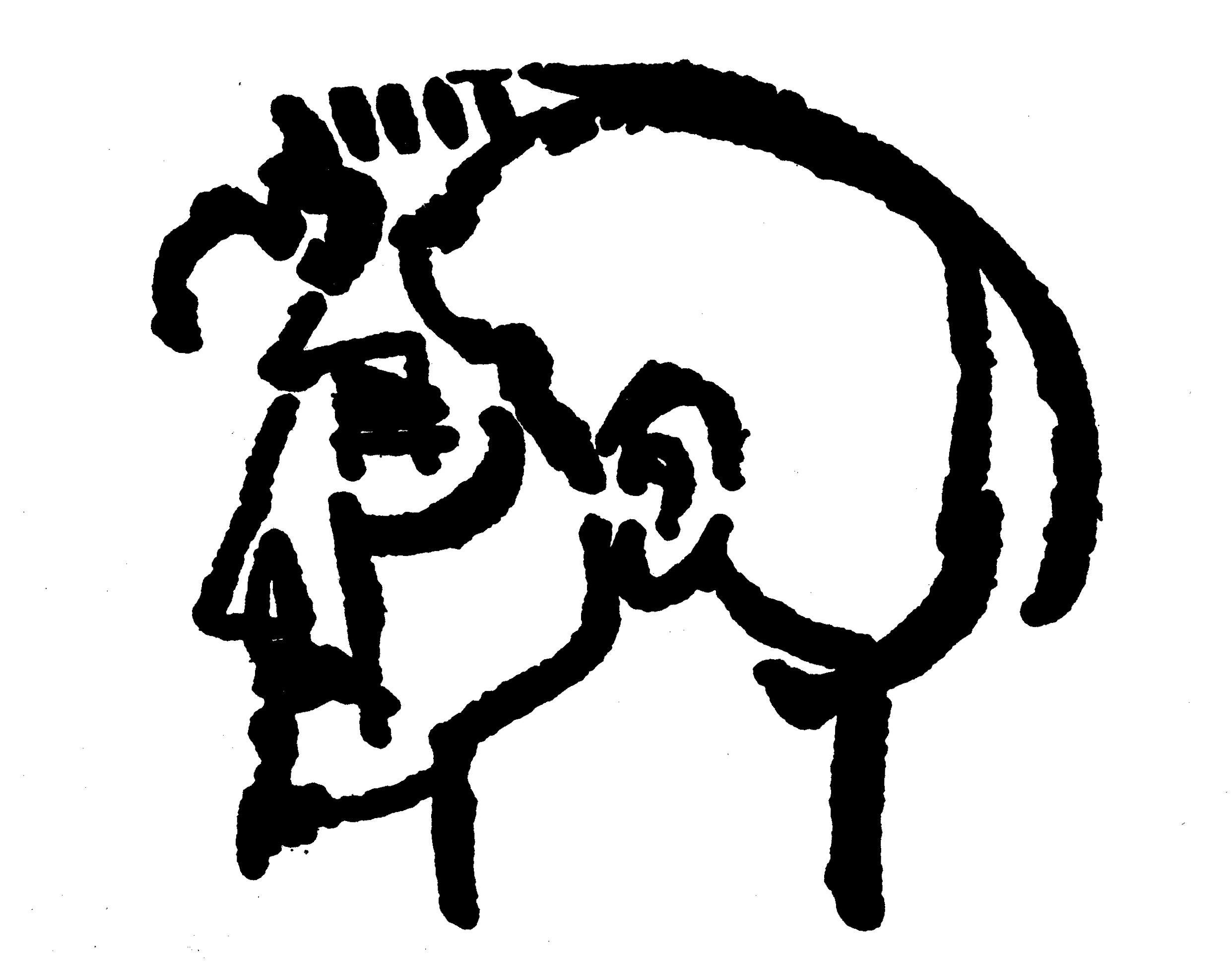 A drawing of Ezra Pound by Henri Gaudier-Brzeska (1891-1915)